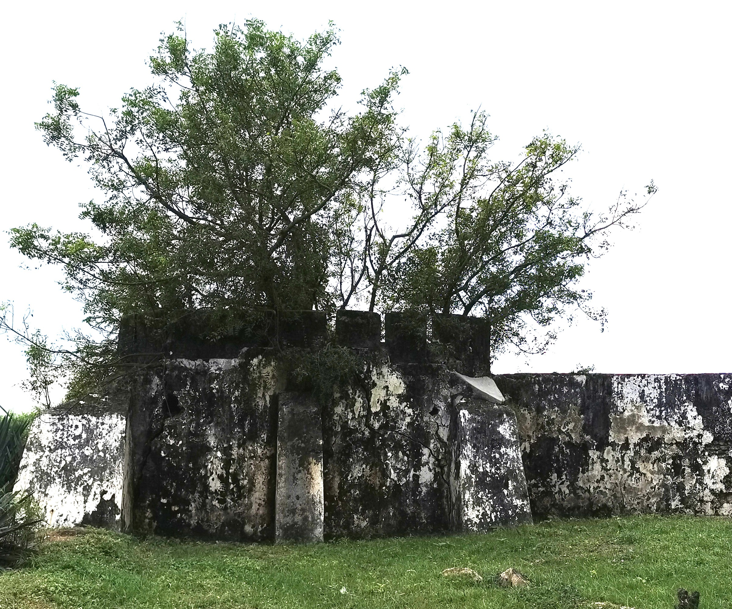 German Boma Saadani, corner bastion